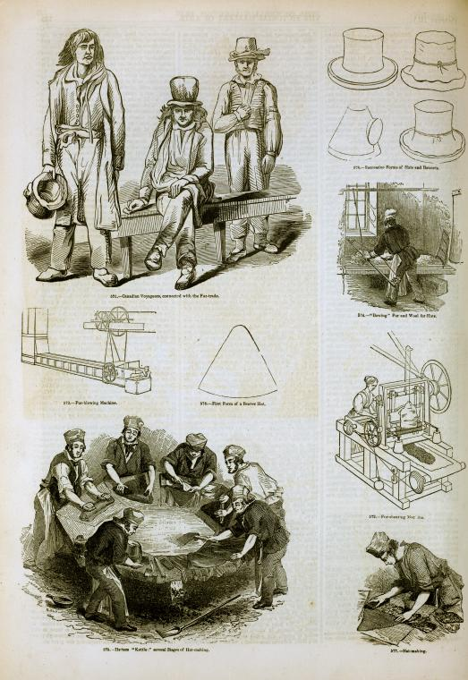 From Charles Knight's Pictorial Gallery of the Arts, England, 1858. Fur industry, hat-making, Canadian voyageurs. The manufacturing of beaver-hair top hats from Canada-produced pelts.